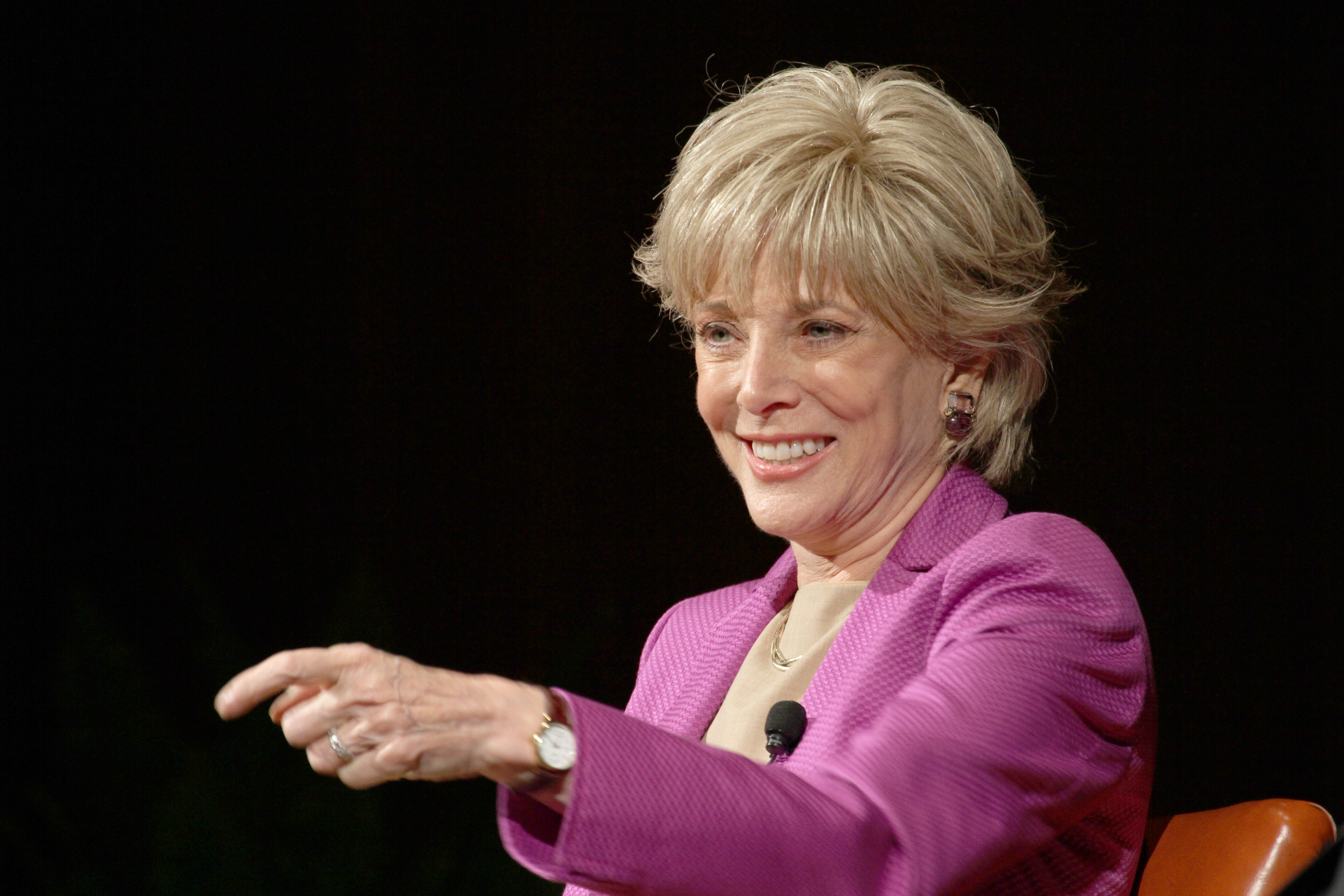 Lesley Stahl at the LBJ Presidential Library.